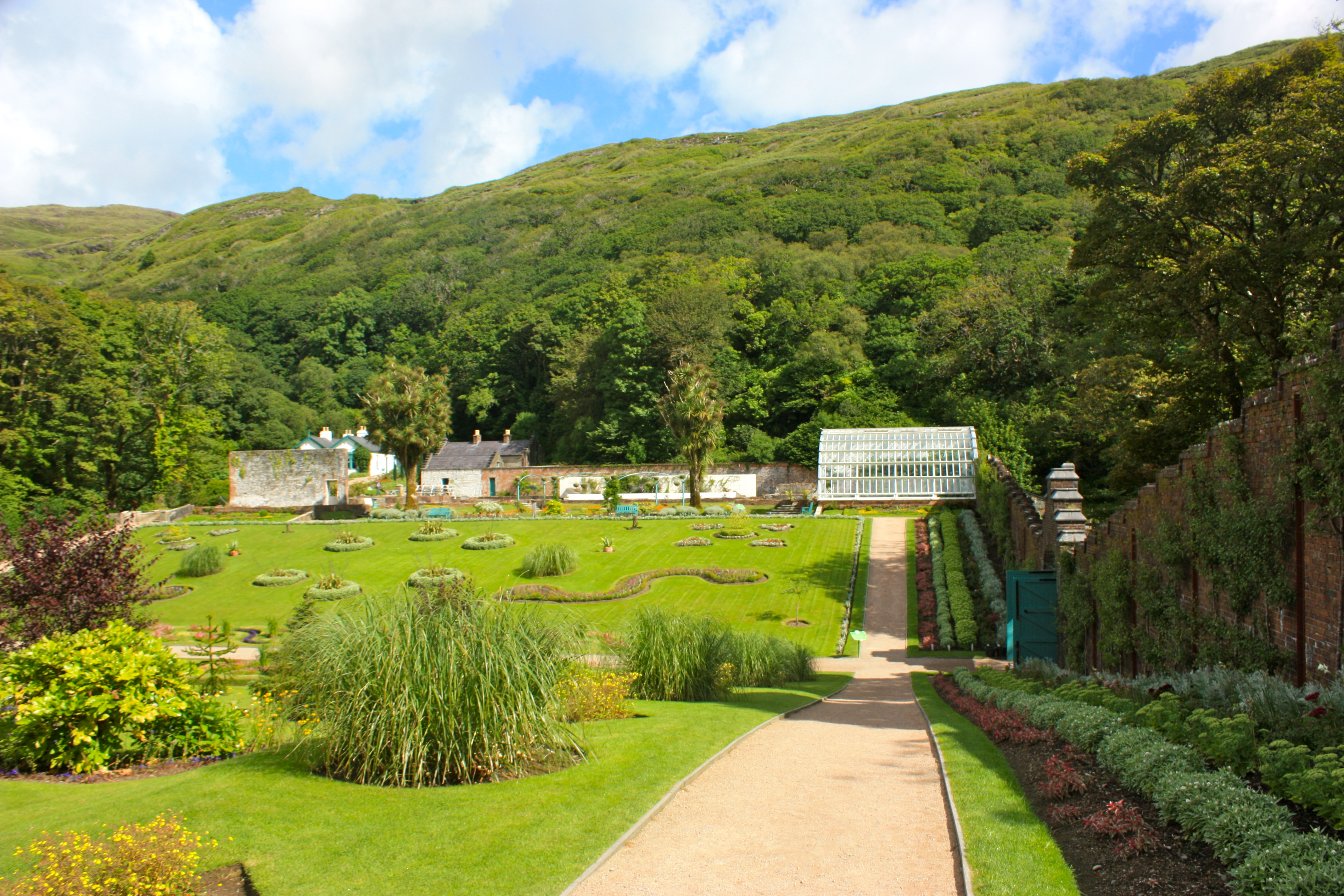 View of walled Victorian Gardens, Kylemore Abbey, Connemara, Ireland